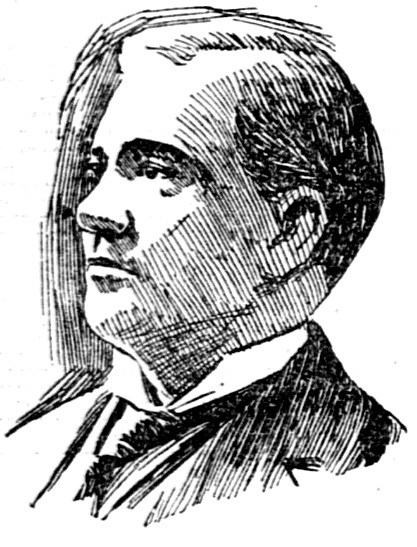 William Oxley Thompson sketched in an 1899 newspaper upon being named president of The Ohio State University.